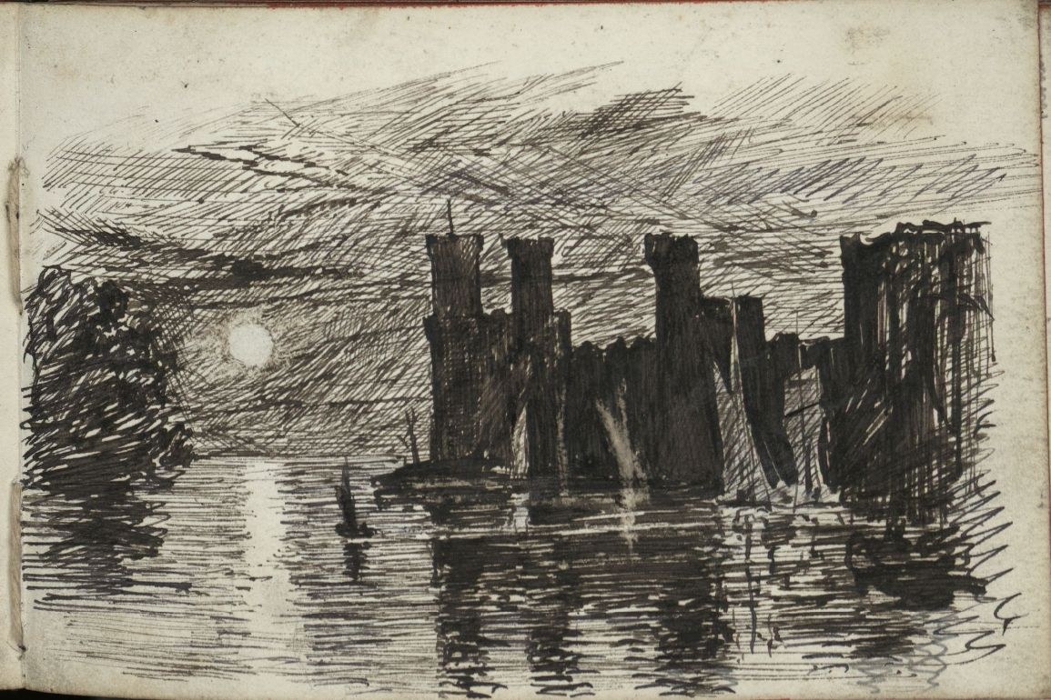 Image from a sketchbook by the artist Samuel Maurice Jones